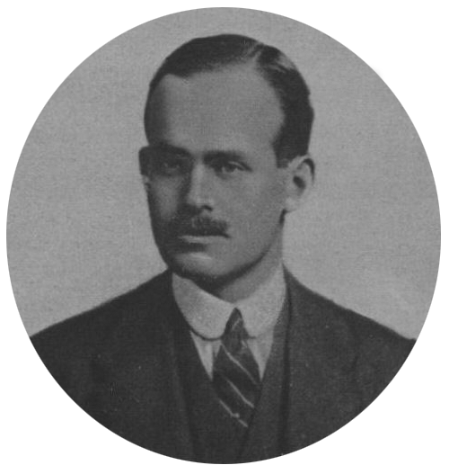 Major Valentine Fleming (1882-1917), MP, in a photograph published following his death in the First World War.